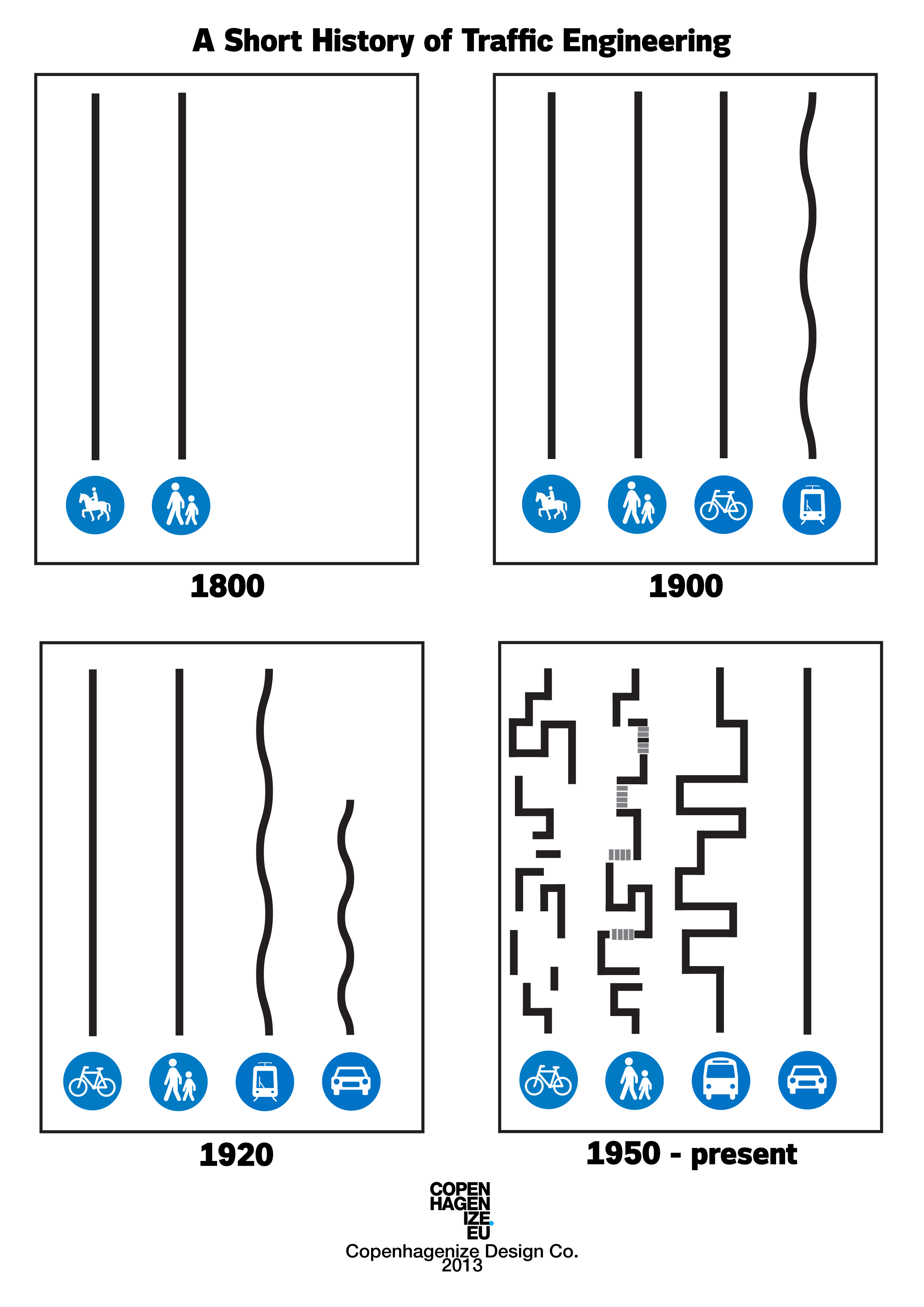 A Short History of Traffic Engineering - a cycling advocacy pamphlet from Copenhagenize.